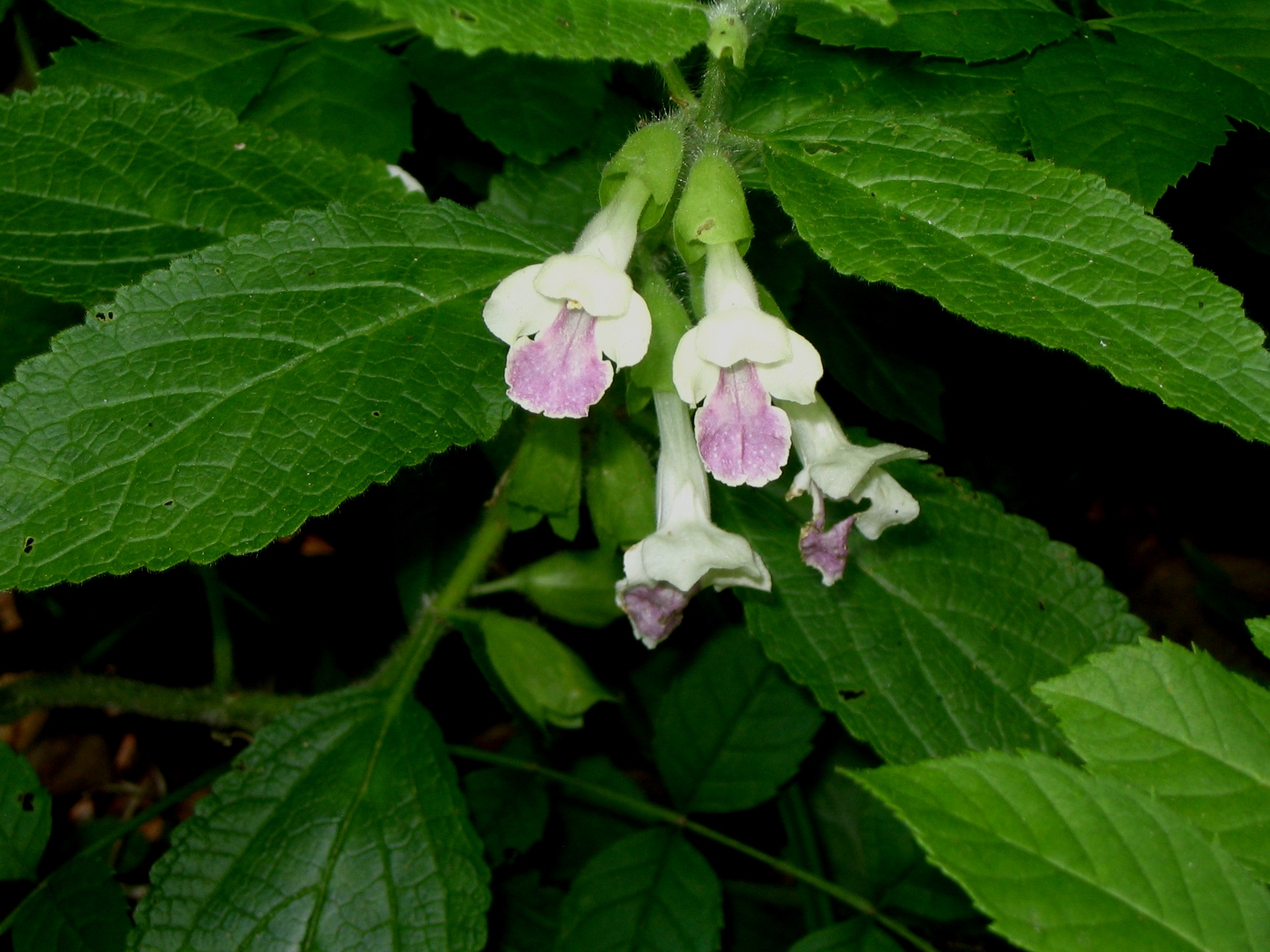 Melittis melissophyllum